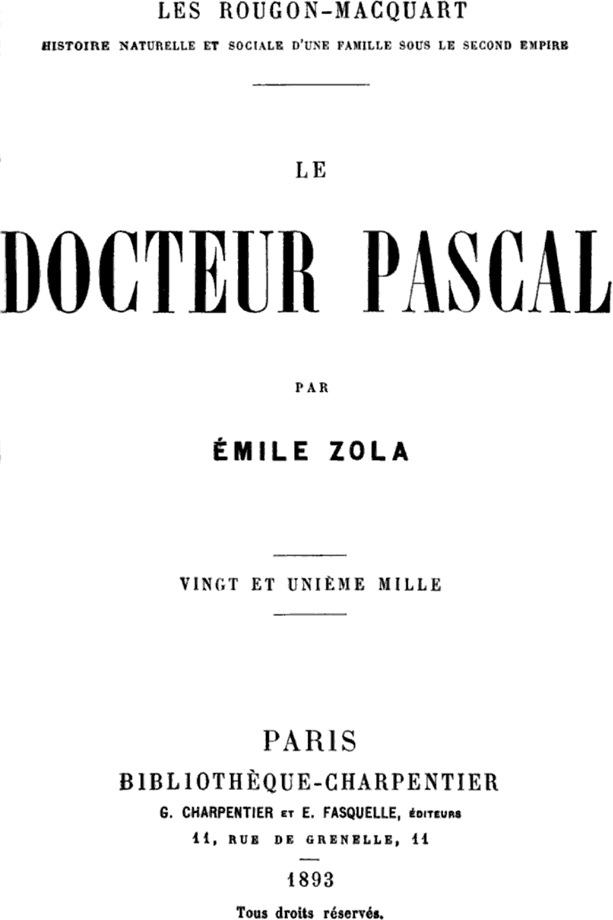 Doctor Pascal (1893) by Émile Zola (1840-1902)